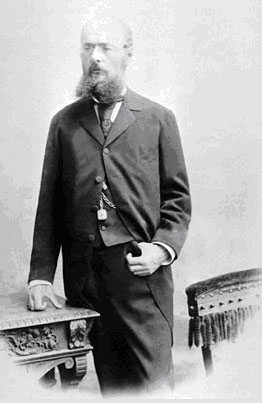 Emil Škoda